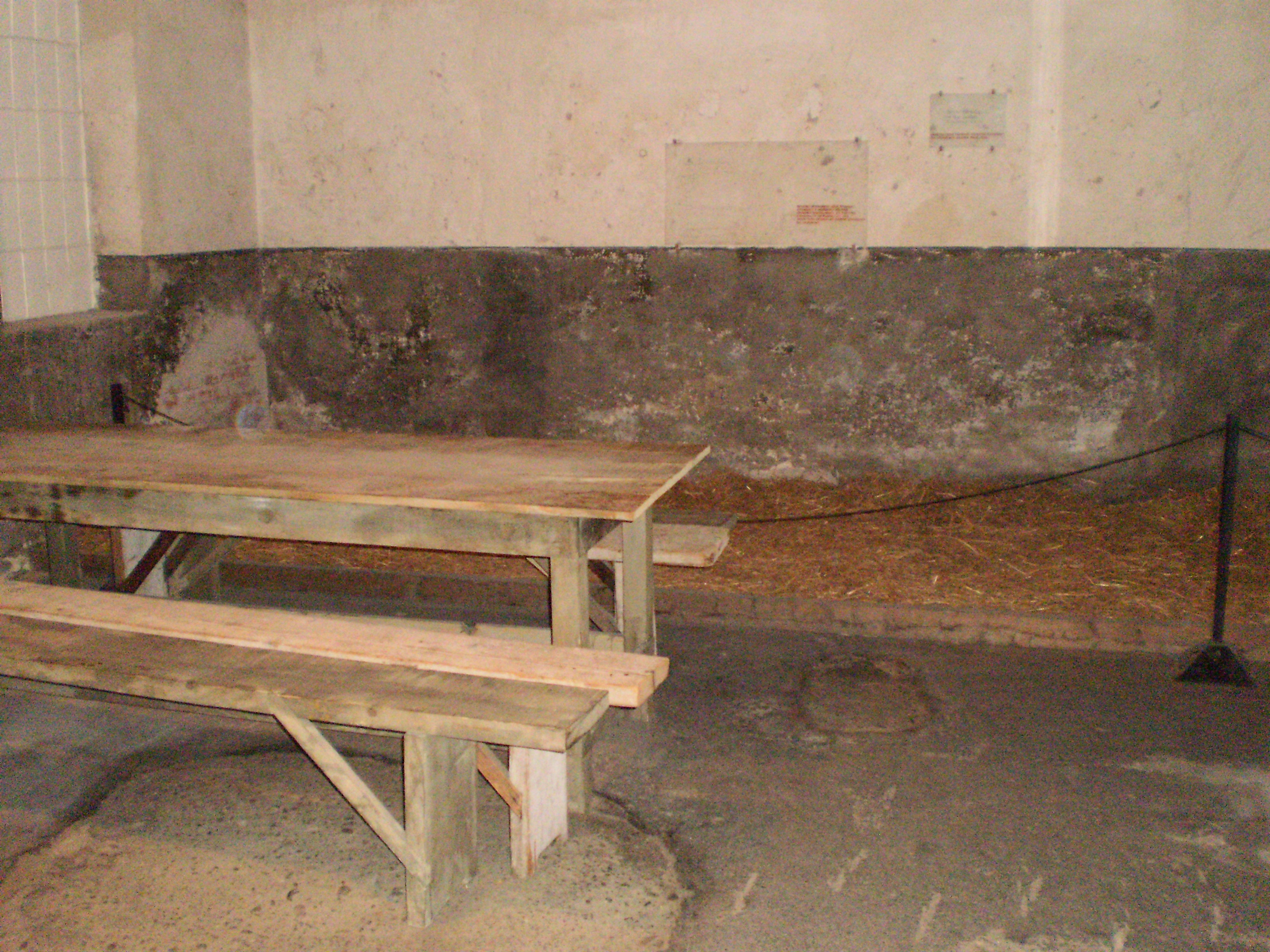 Crveni Krst concentration camp, Niš Serbia